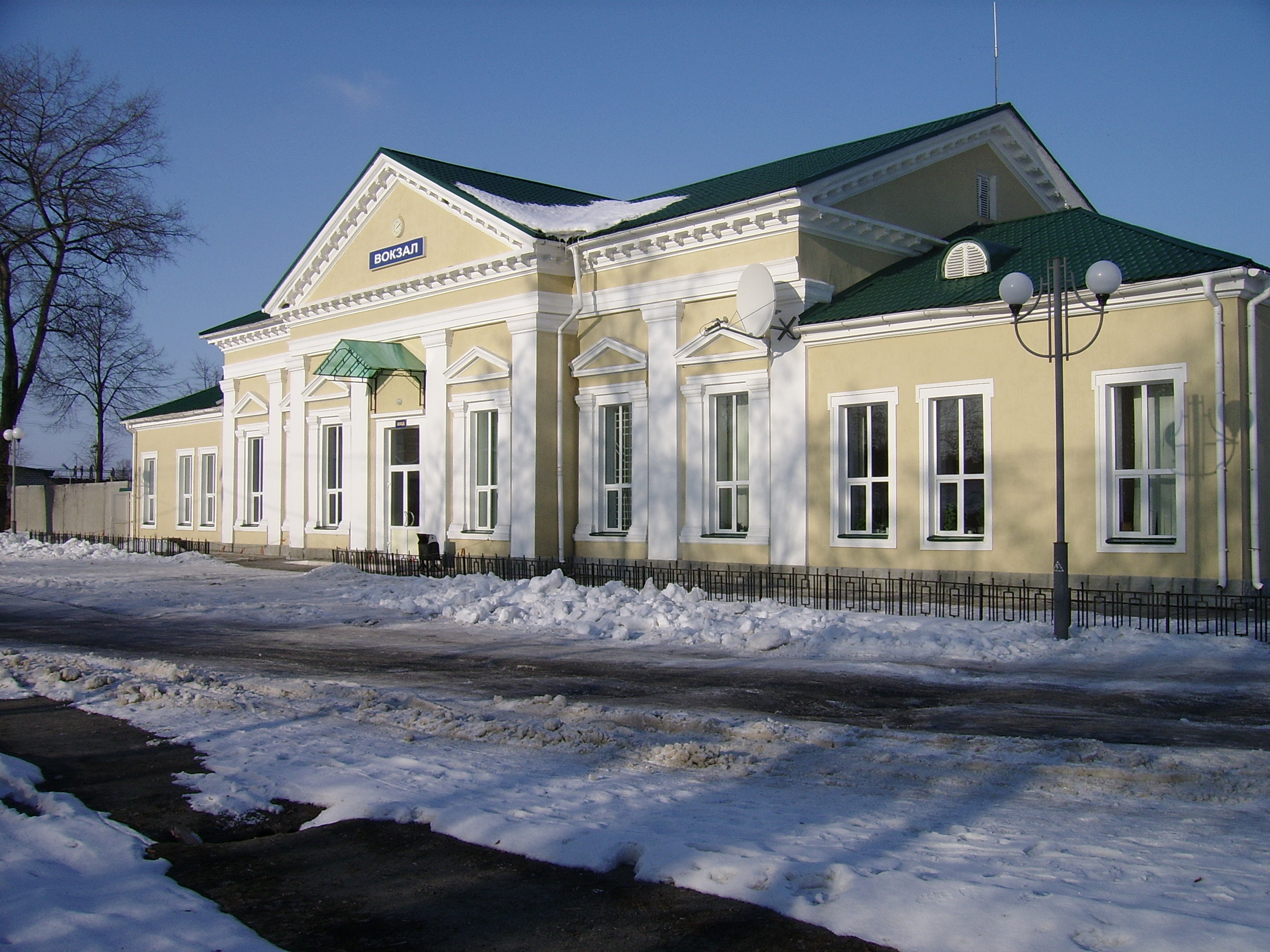 Snovsk railway station, South-Western Railway, Ukraine